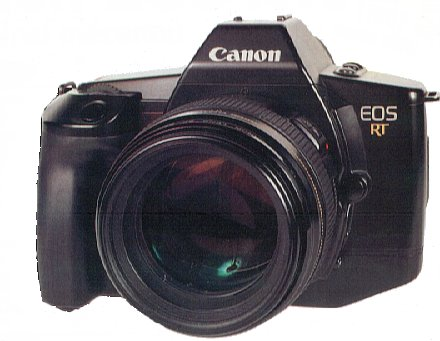 CANON EOS RT